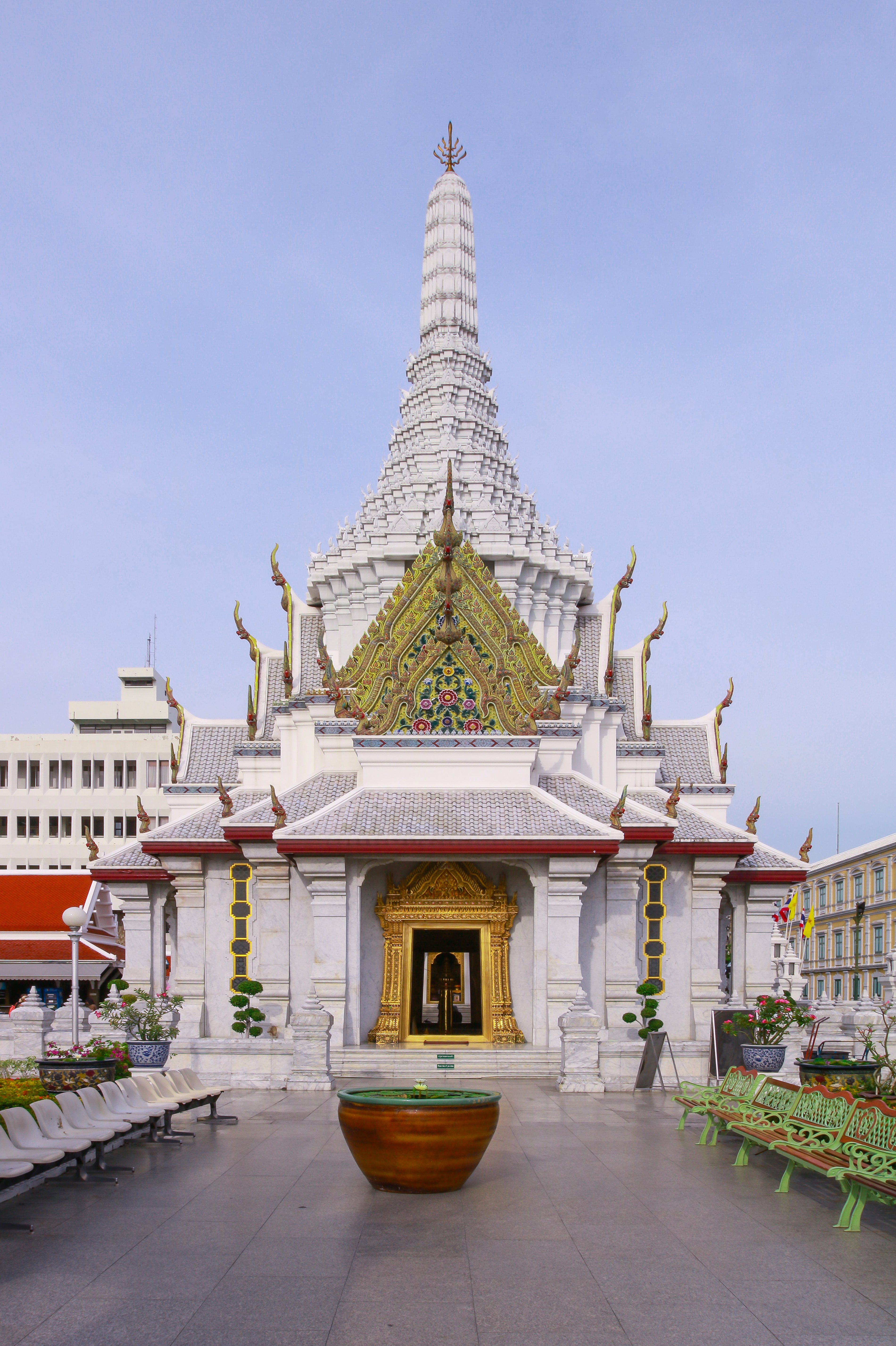 Bangkok City Pillar Shrine, Thailand.